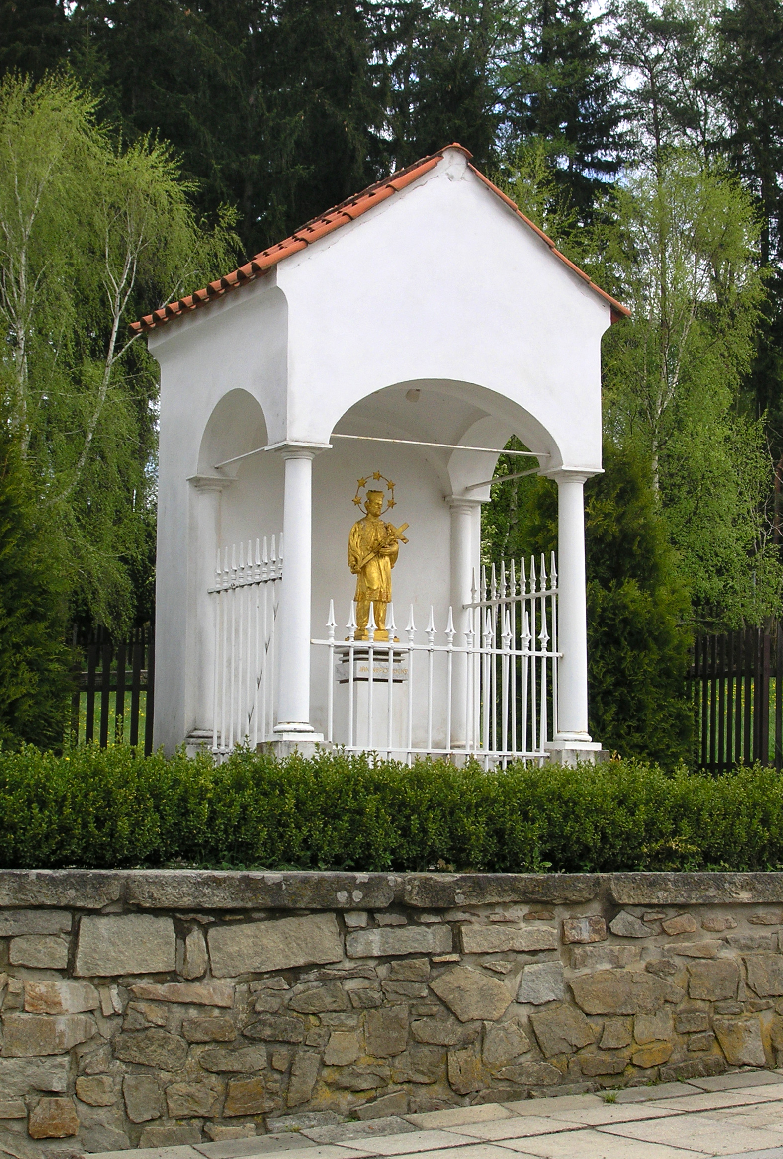 Chapel in Včelnička village, Czech Republic